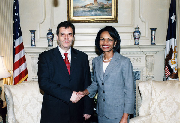 US Secretary of State Condoleezza Rice greets Vojislav Koštunica. Washington, DCJuly 11, 2006